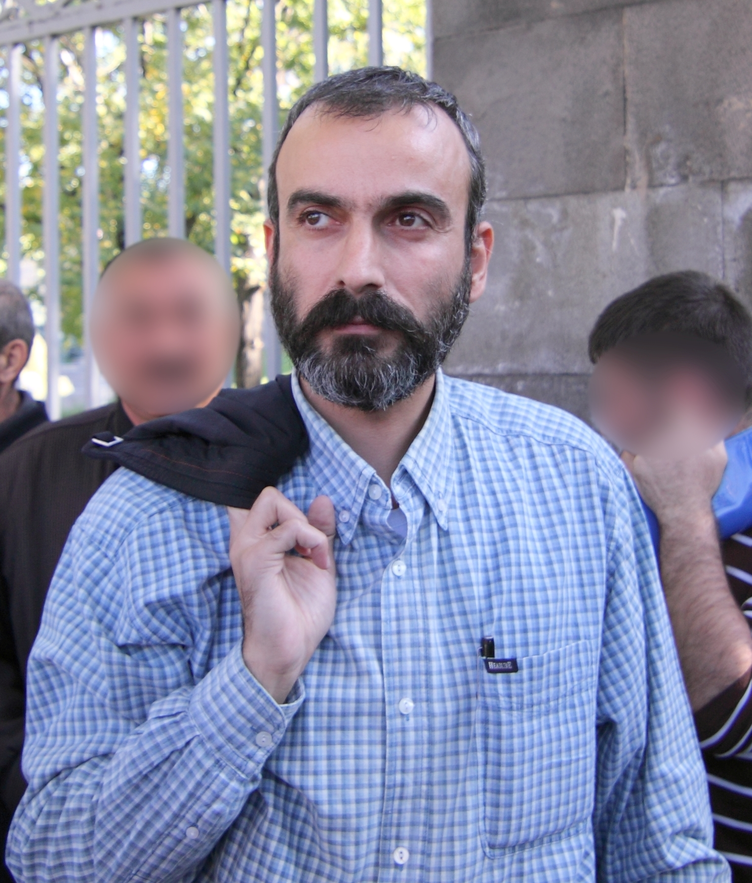 Jirair Sefilian at a protest against the Armenian Academy of Science's decision to officially support the 2009 Armenia-Turkey protocols. Taken in Yerevan on Marshall Baghramyan boulevard.